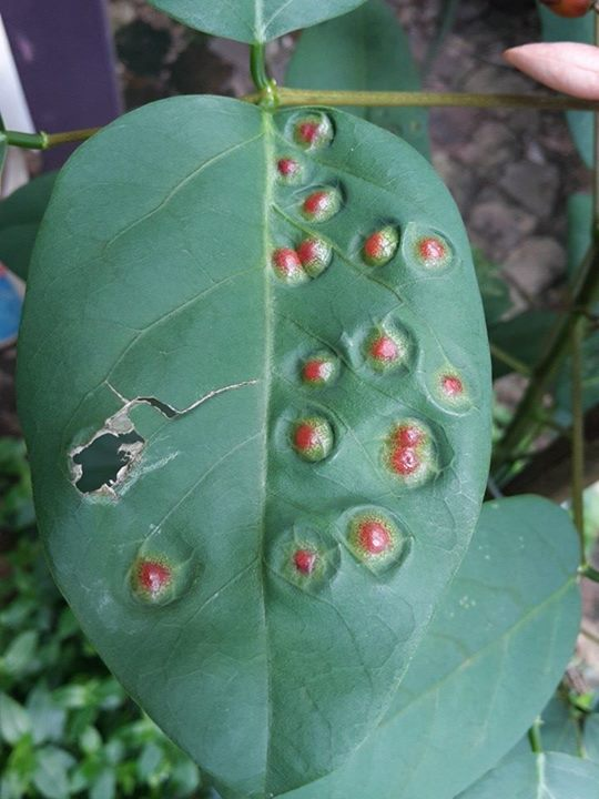 Leaf galls caused by Quadrastichus erythrinae - cultivated plant in Weltevreden Park, Johannesburg